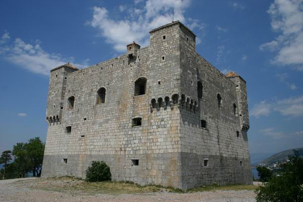 Burg Nehajgrad, eigenes Foto, public domain